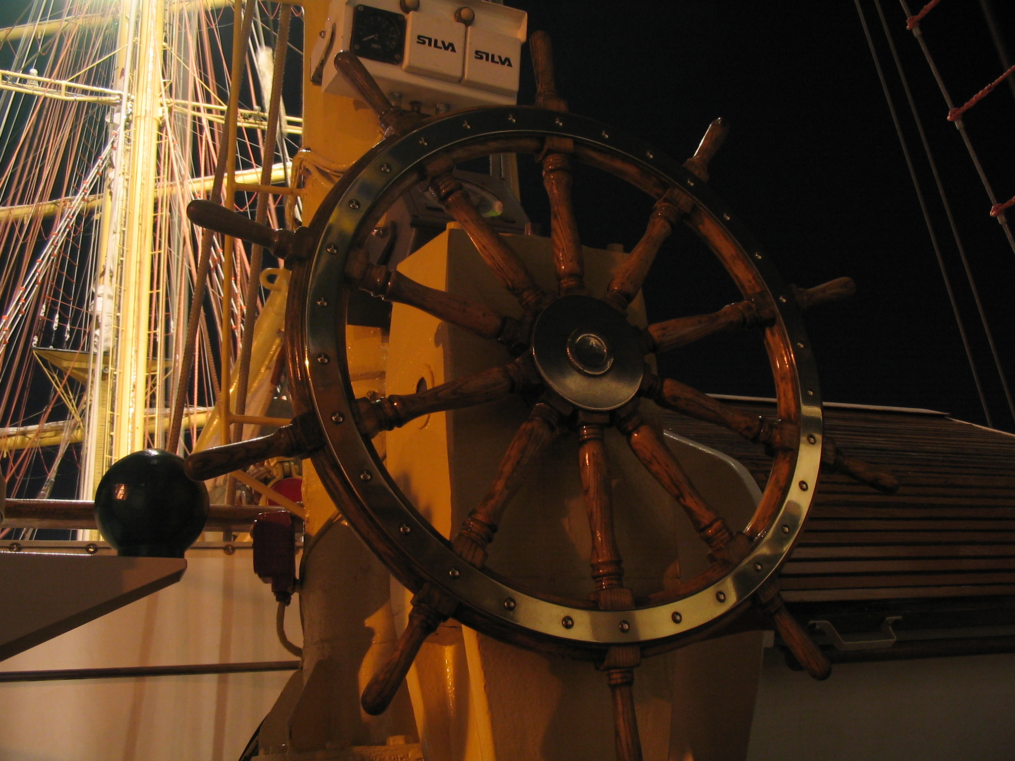 ORP Iskra steering whell.